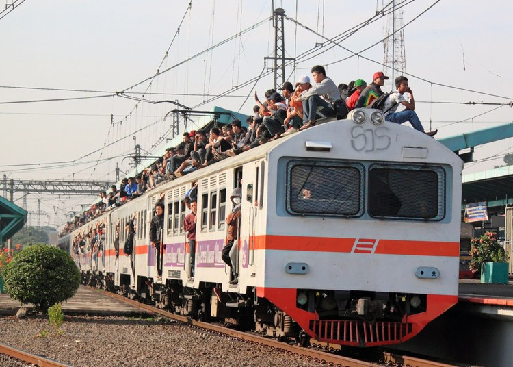 A crowded KRL electric multiple unit train with passengers riding on the outside in Jakarta, Indonesia.